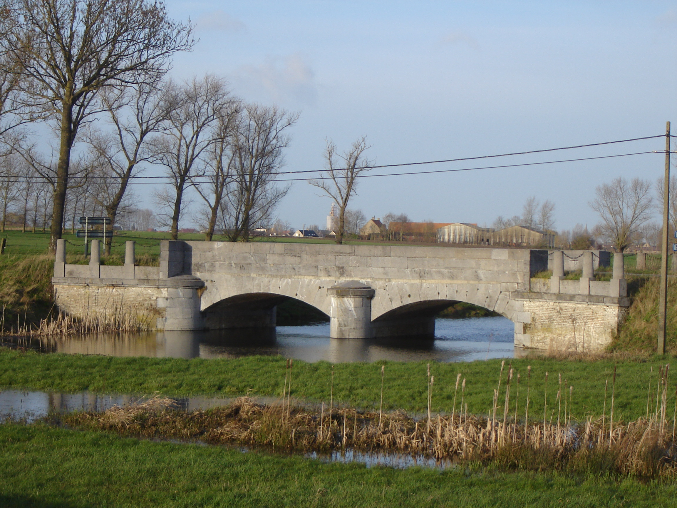 Stenen Brug bridge (ca. 1780) over the Dode IJzer in Elzendamme. Elzendamme, Pollinkhove, Lo-Reninge, West Flanders, Belgium and Oostvleteren, Vleteren, West Flanders, Belgium